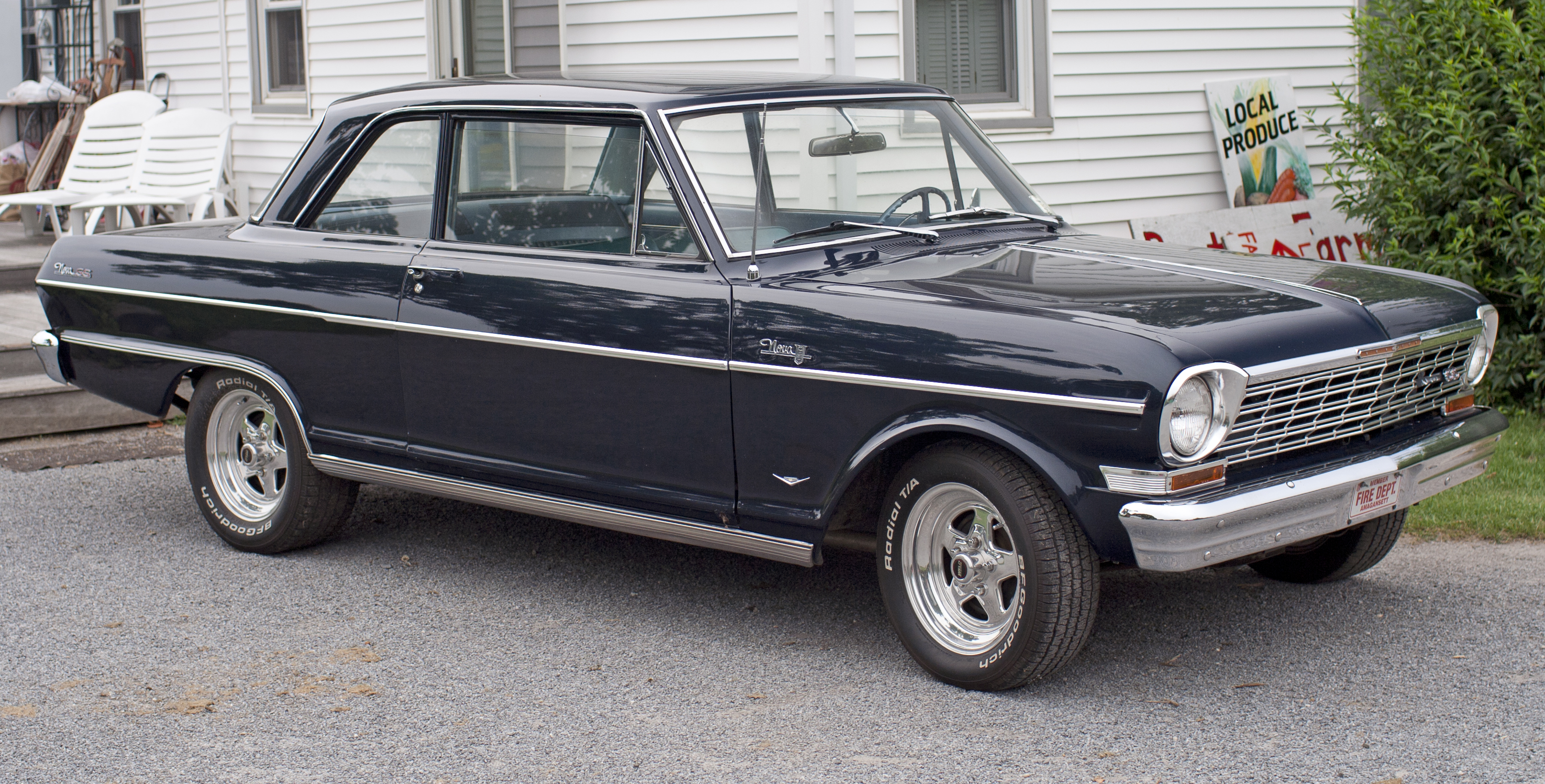 1964 Chevrolet Chevy II Nova 400 2-door sedan, with aftermarket wheels (and stance!) and incorrect "SS" badging